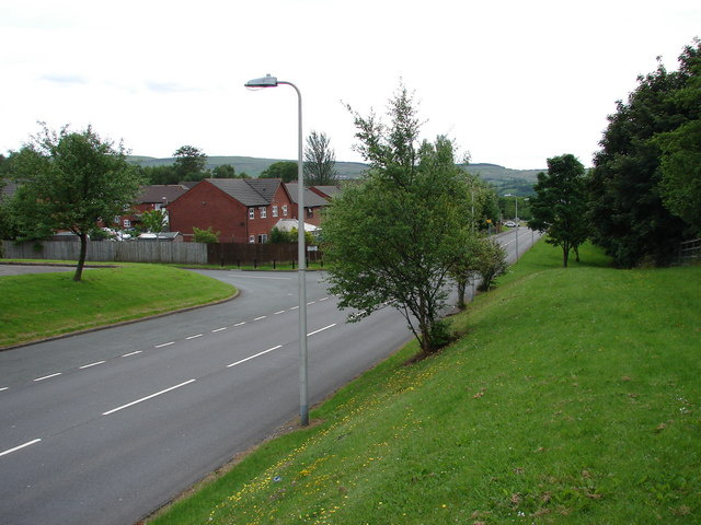 Top End of Gurnos View of housing, the embankment to the A465 and estate roads at the north of Gurnos, Merthyr Tydfil.